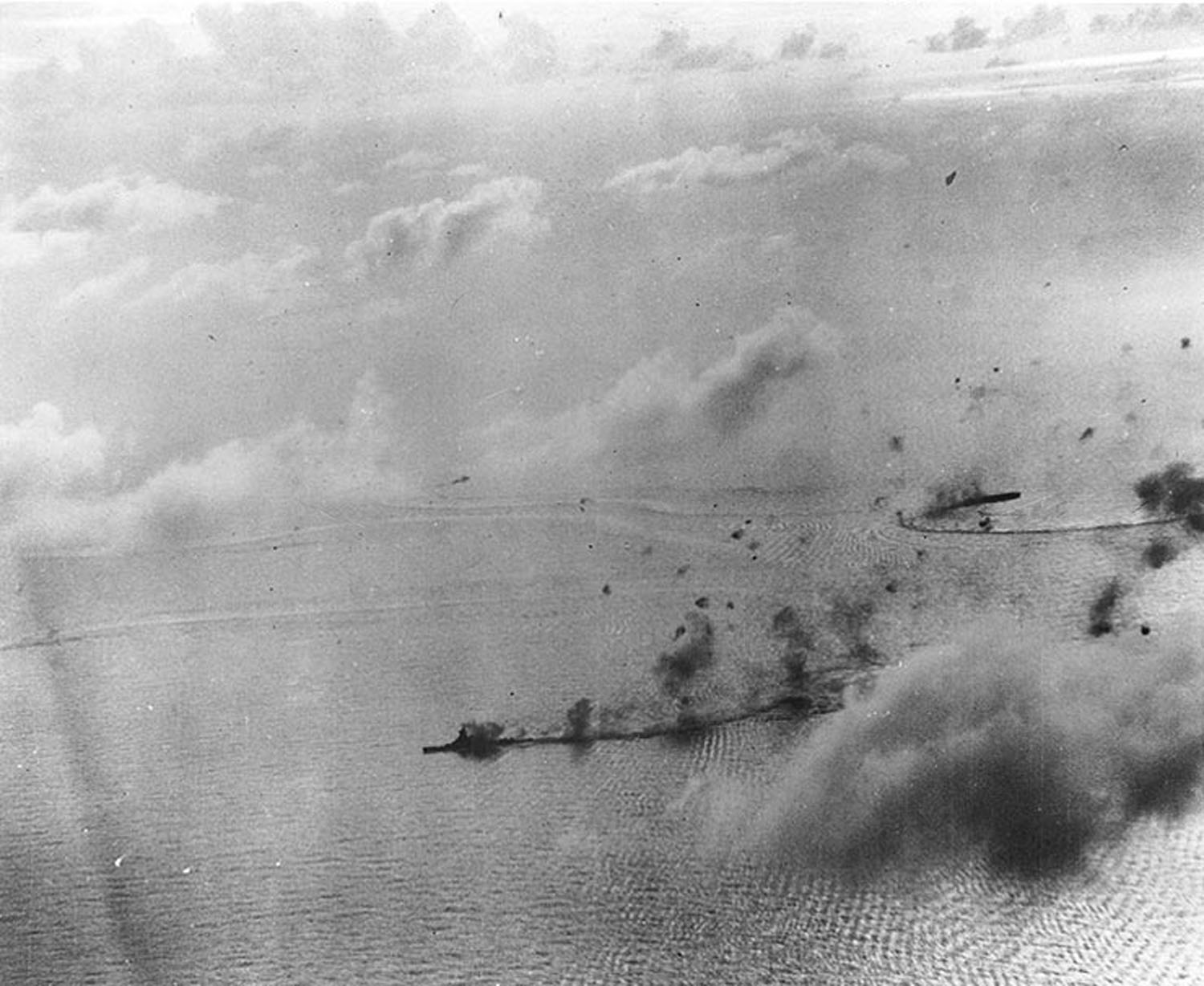 The Japanese Carrier Division Three under attack by Task Force 38 planes, 20 June 1944, during the Battle of the Philippine Sea. The battleship in the lower center is either Haruna or Kongo. The aircraft carrier Chiyoda is at right.